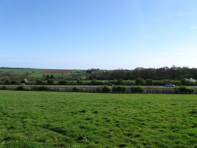 Ecclesden Common Viewed from the old Arundel Road which was superseded as the A27 by the dual carriageway in view during the 1990s. The wood on the right is Groom's Copse and the lower slopes of Highdown Hill can be seen on the left.